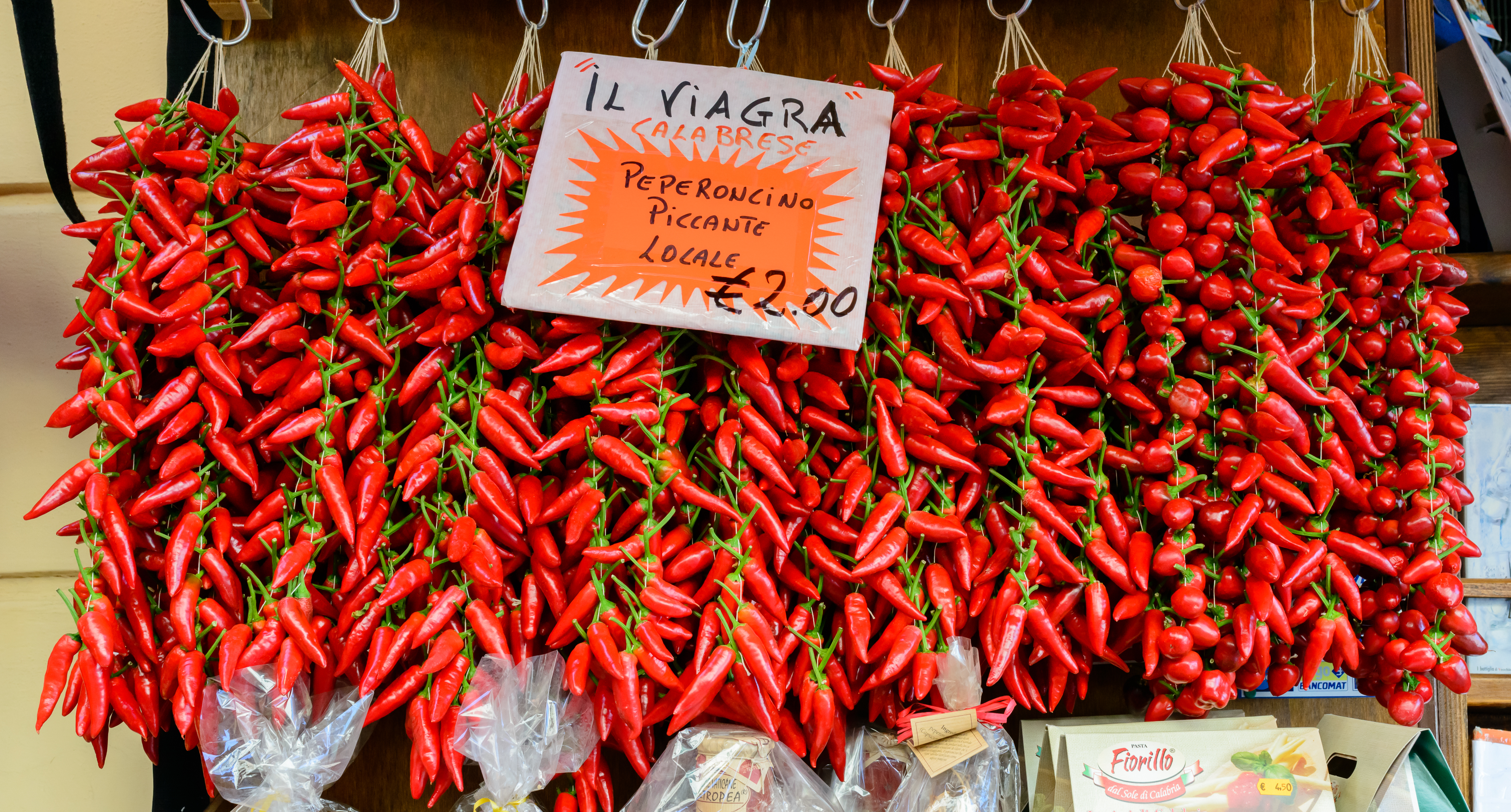 Chili (Capsicum), Tropea, Calabria, Italy. With sign "Il Viagra Calabrese".